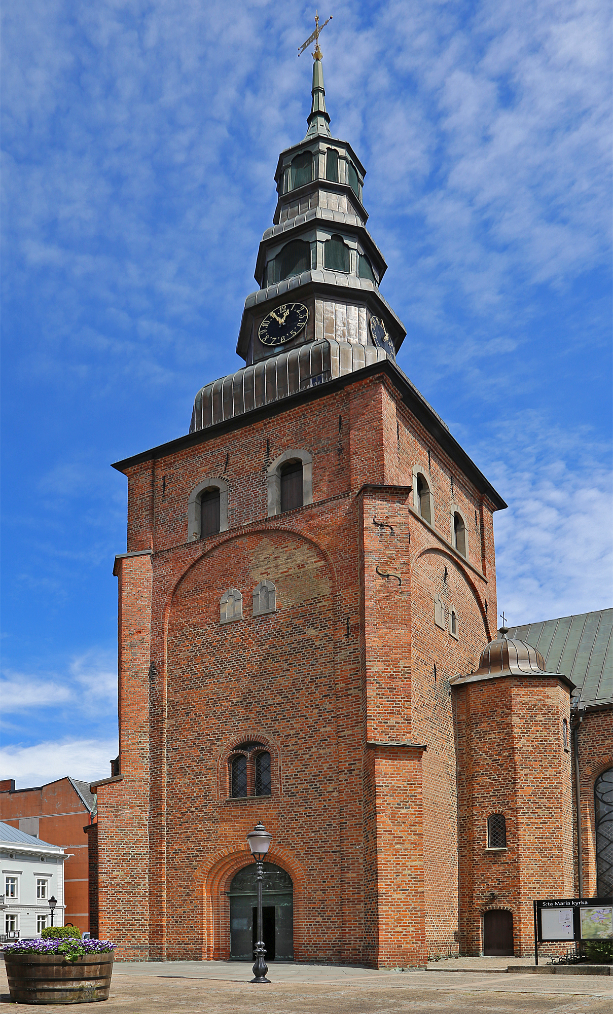 St. Mary's Church (Sankt Maria kyrka) is a municipality church in the southern Swedish city of Ystad.